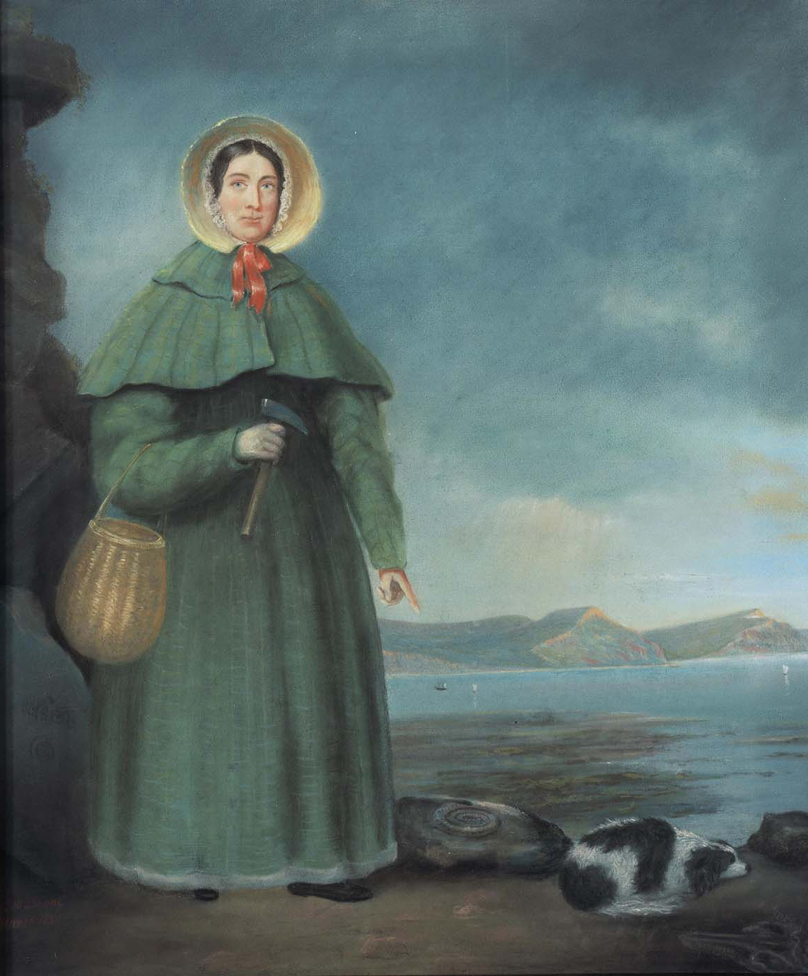 Painting of Mary Anning made after her death, at the Geological Society/NHMPL, based on a portrait from 1842.[1]